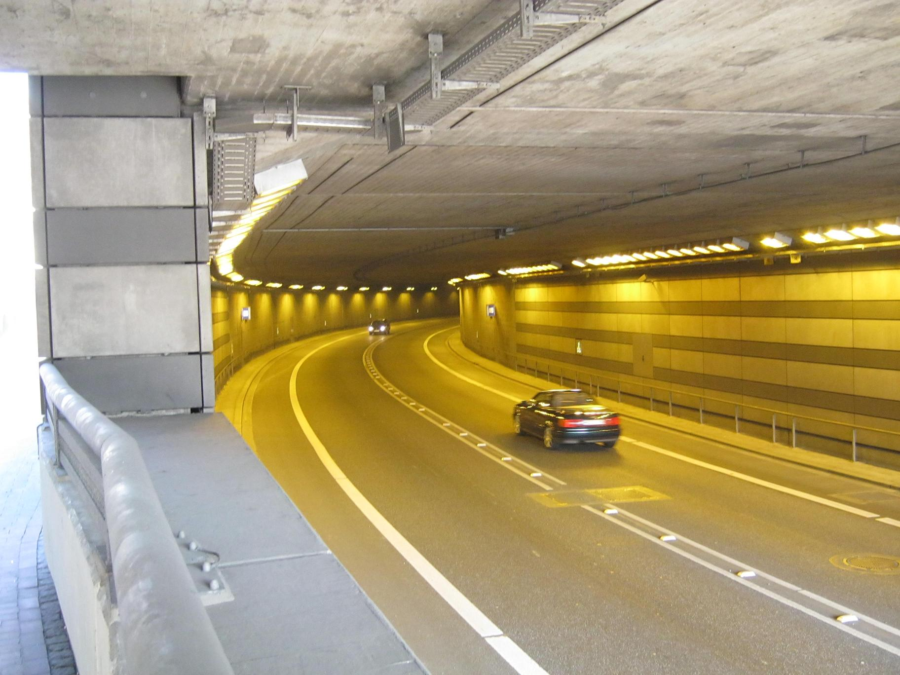 Hemelinger Tunnel - west side - in Bremen, Germany.